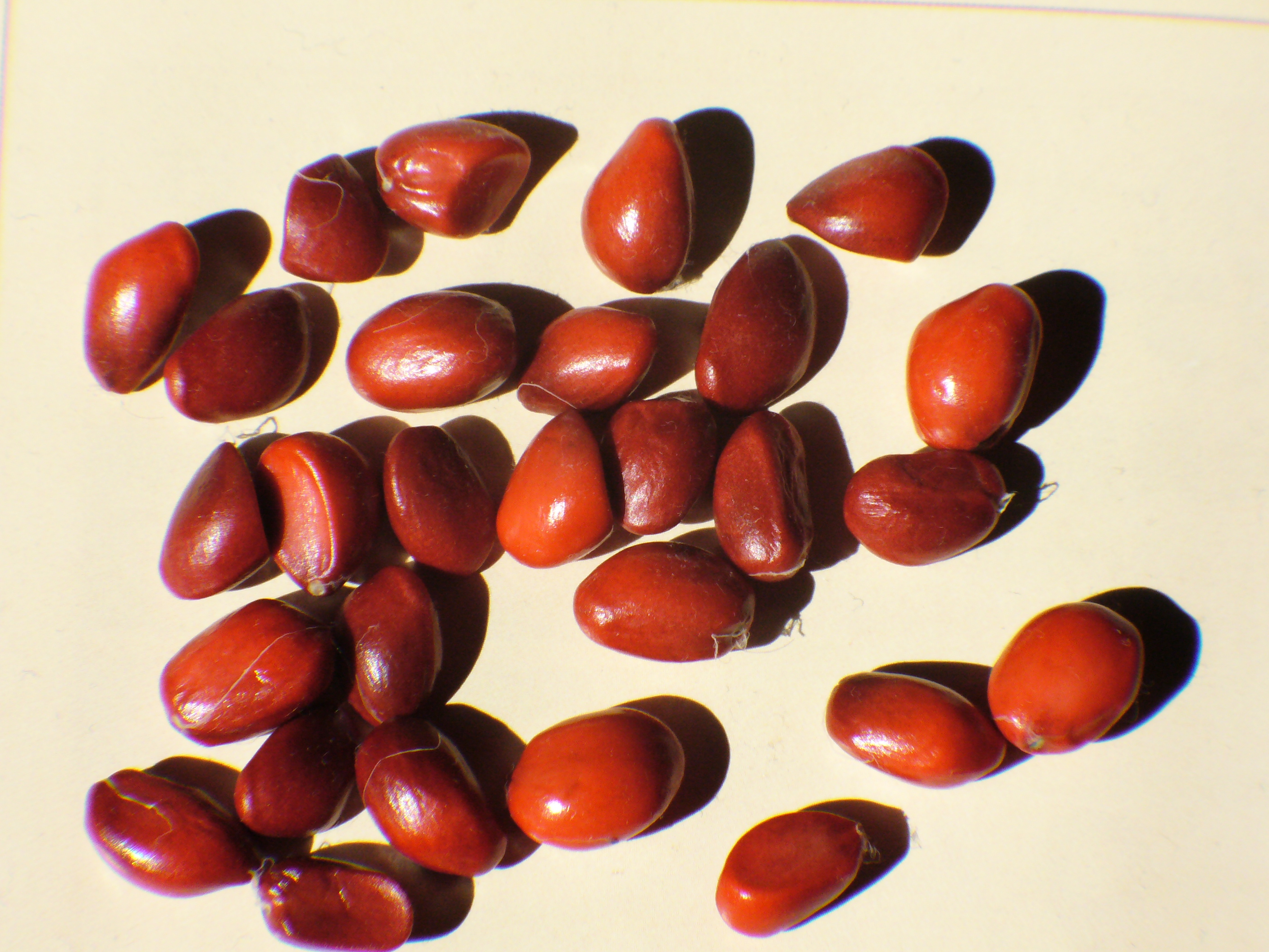 Photograph of Magnolia obovata, taken in Komaki city, Aichi, Japan.